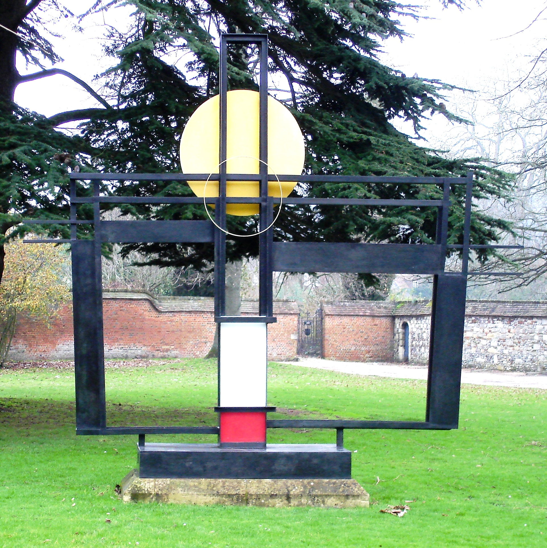 Suzanne Knights, my photo, xmas 2006 Sculpture Construction Crucifixion Homage to Mondrian by Barbara Hepworth in the United Kingdom